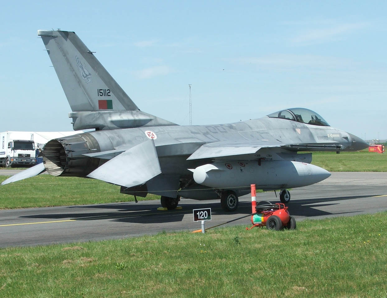 F-16 Fighting Falcon from the Protugees Air Force. Picture taken at Karup Air Force Base in Denmark. 18th of June 2005. /PAJ